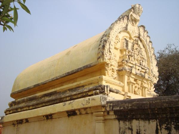 Amvar Buddhist Chaitya converted to Hindu Shrine Chejerla Kapoteswara temple in guntur district